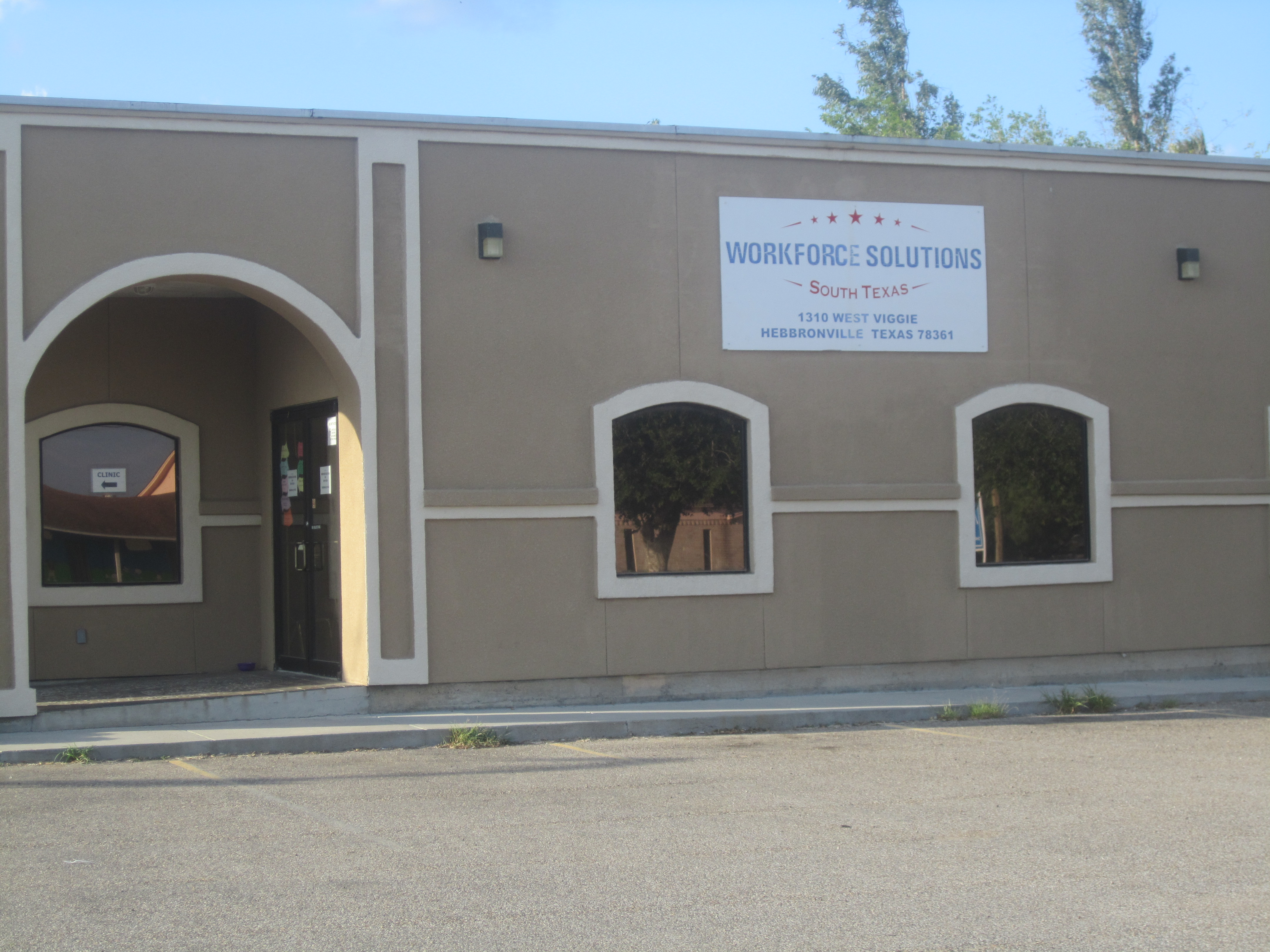 I took photo with Canon camera of South Texas Workforce Solutions office in Hebbronville, TX.